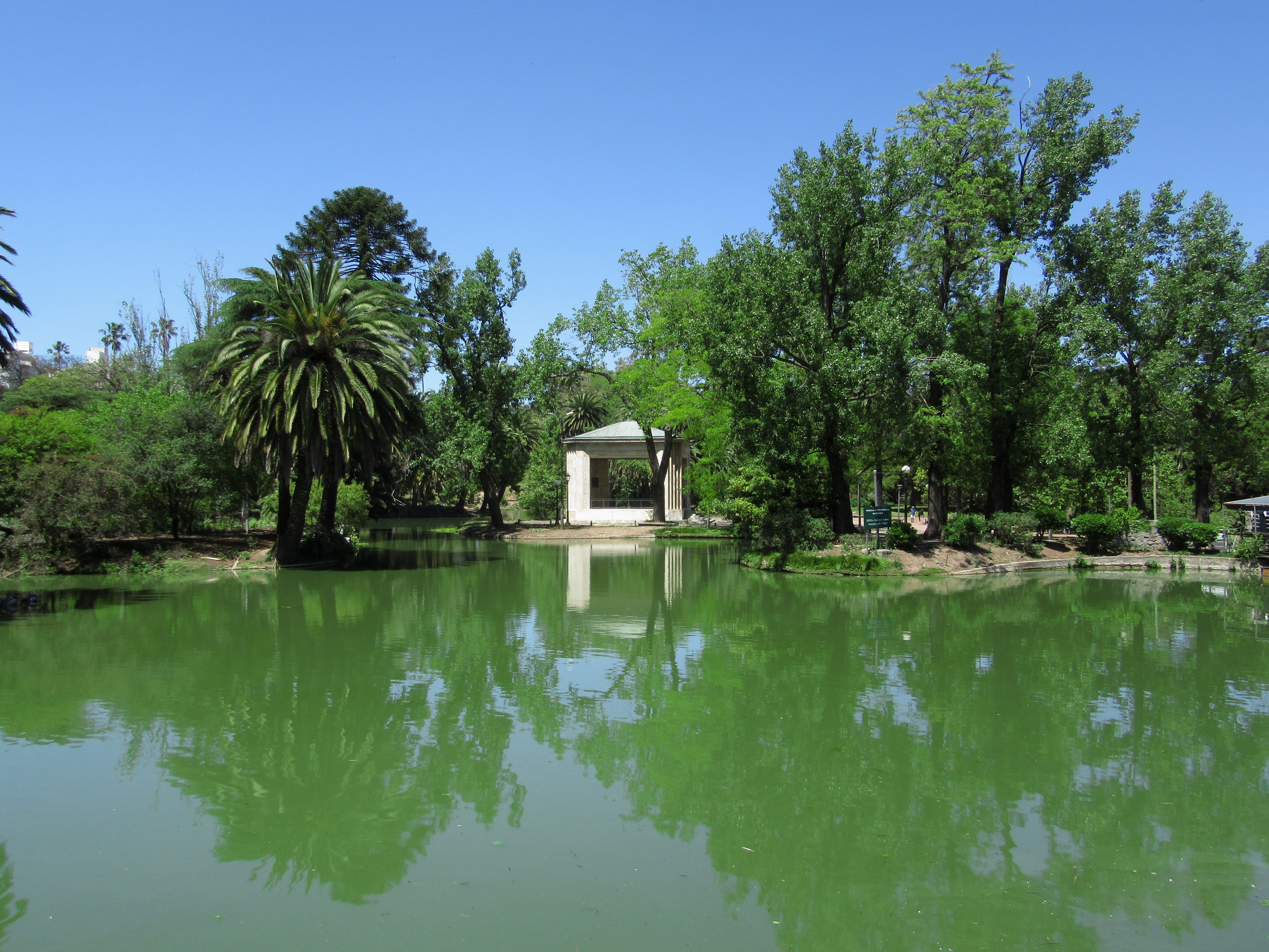 Montevideo